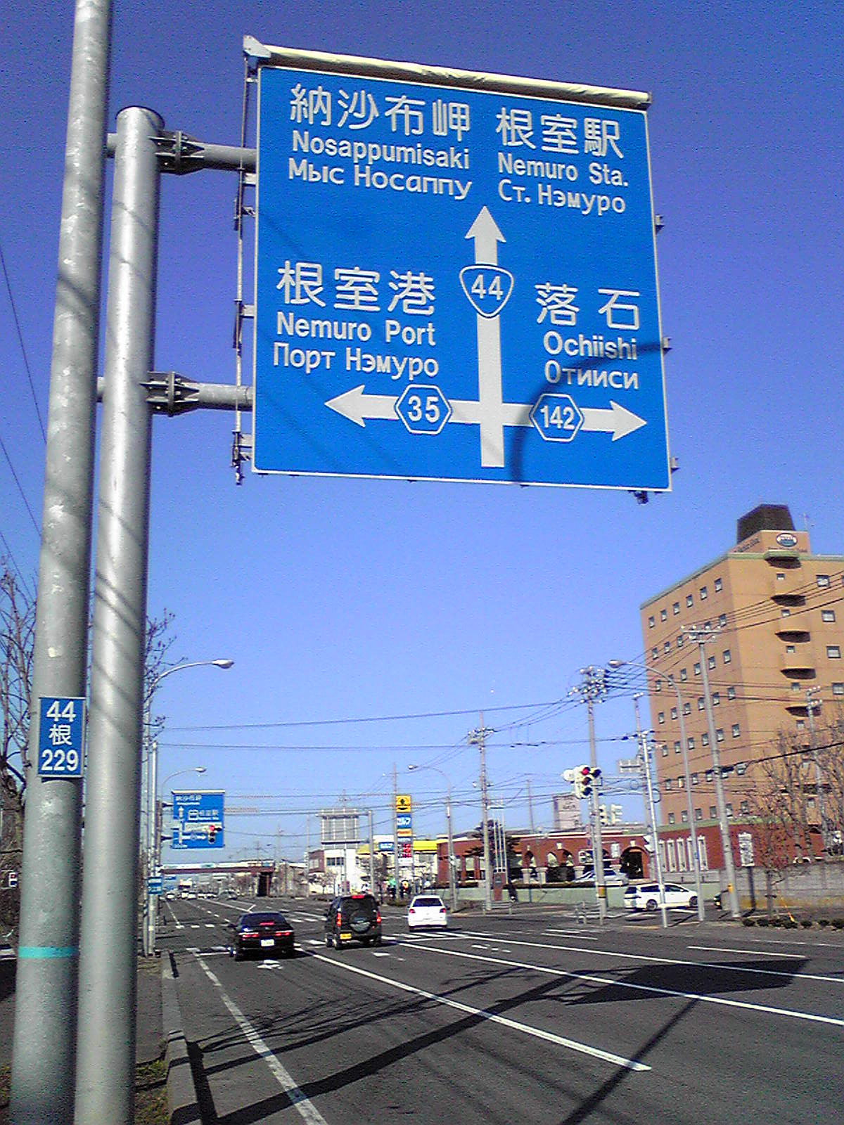 Road traffic sign with Russian, Nemuro, Hokkaido, Japan.